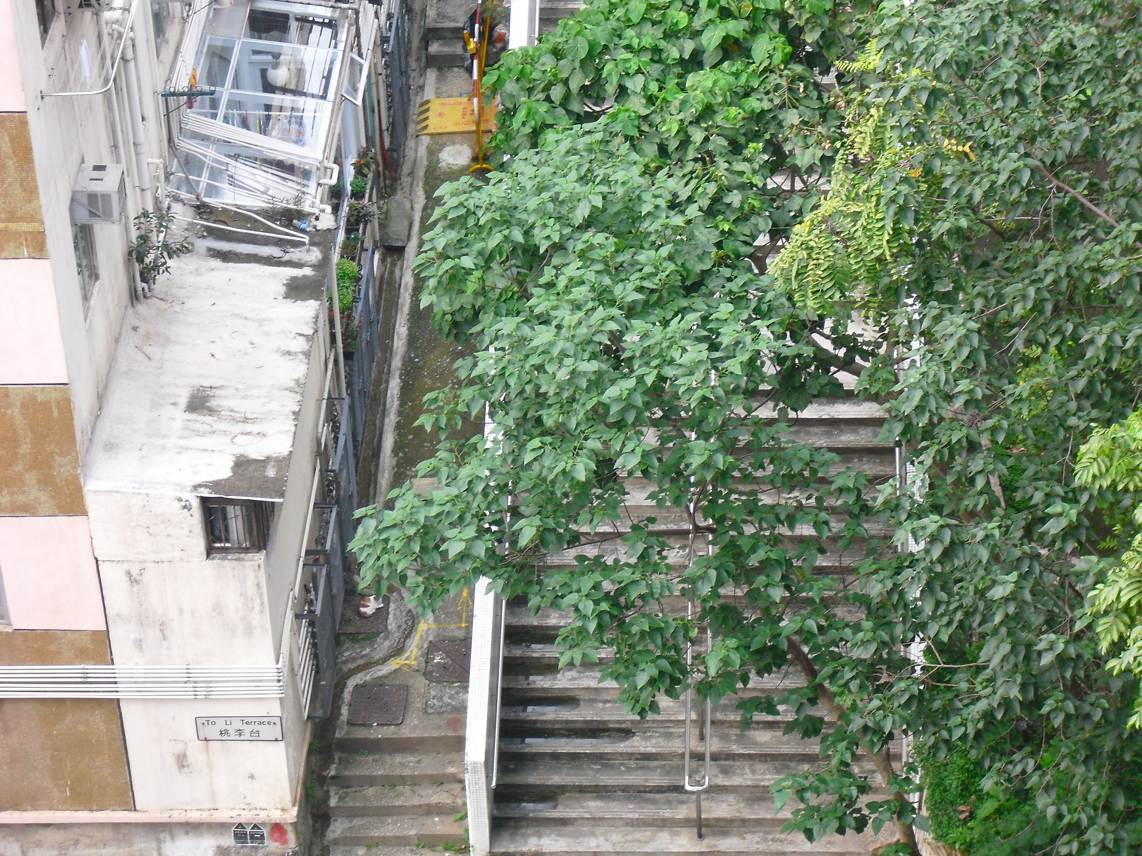 The view of To Li Terrace. 中文（香港）: 桃李臺的景觀